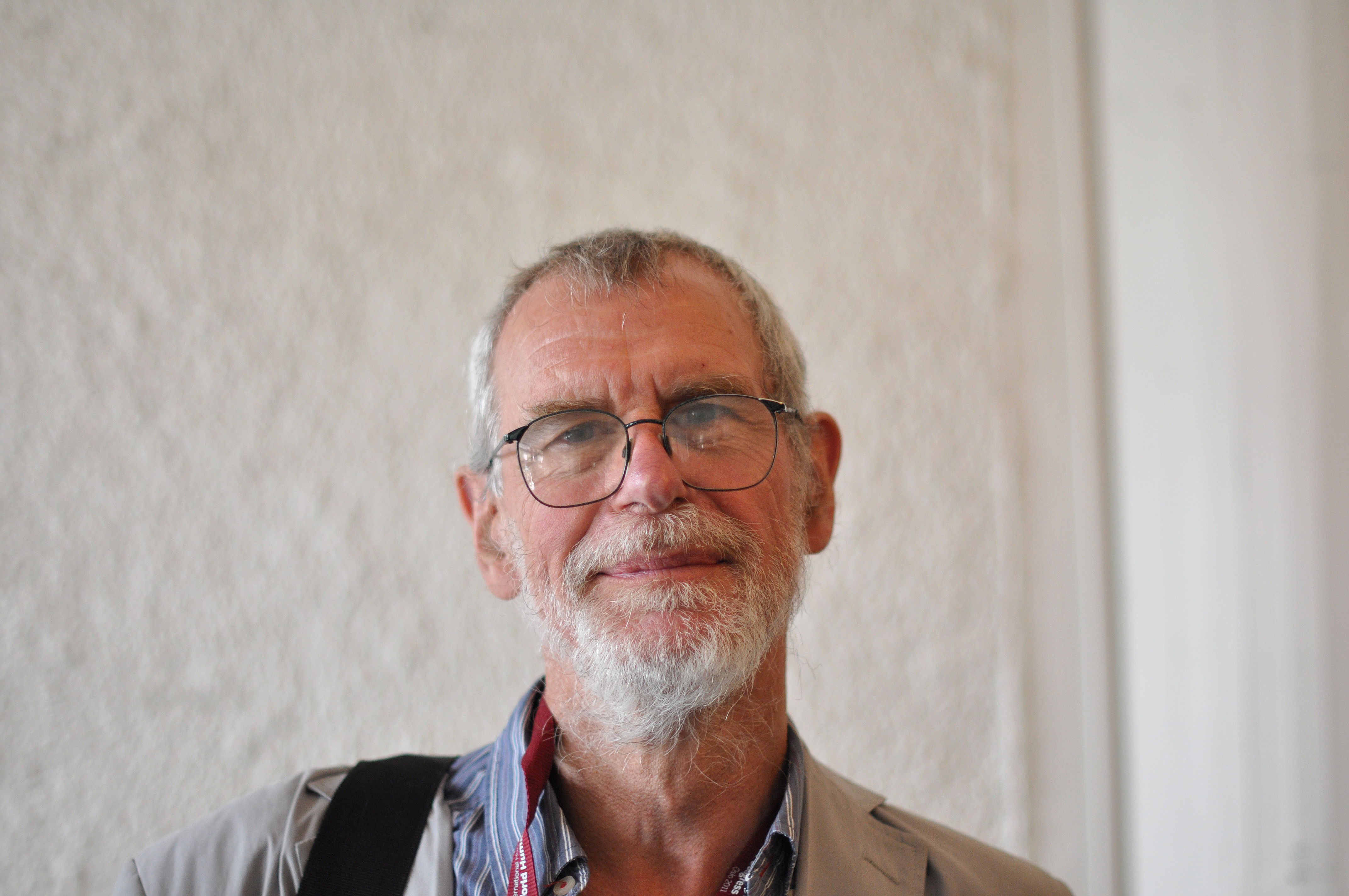 Richard Norman, philosopher and Vice President of the British Humanist Association, during a break at the World Humanist Congress 2011 in Oslo.